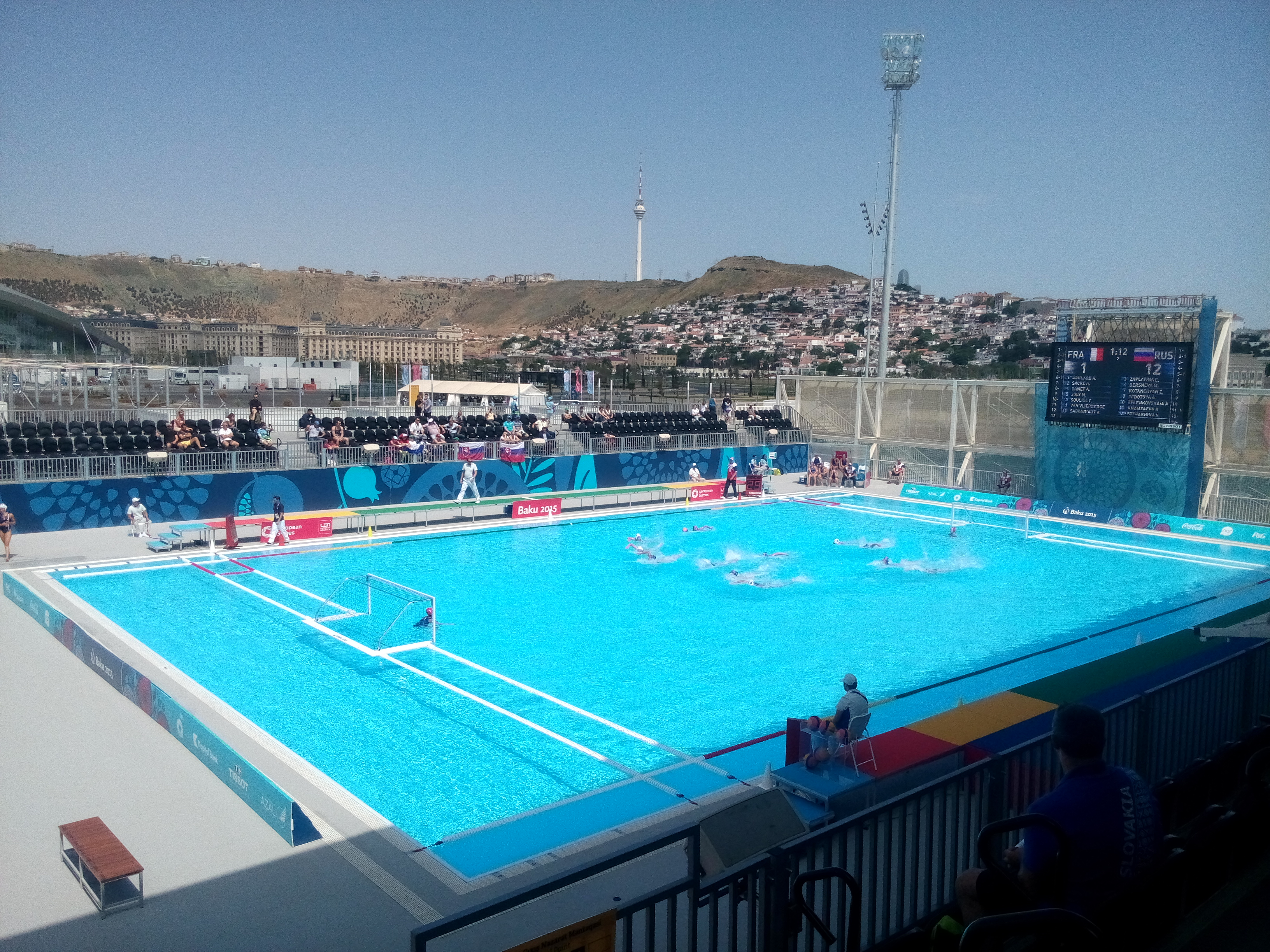 2015 European Games. Water polo. Women's tournament. Group B. France vs Russia